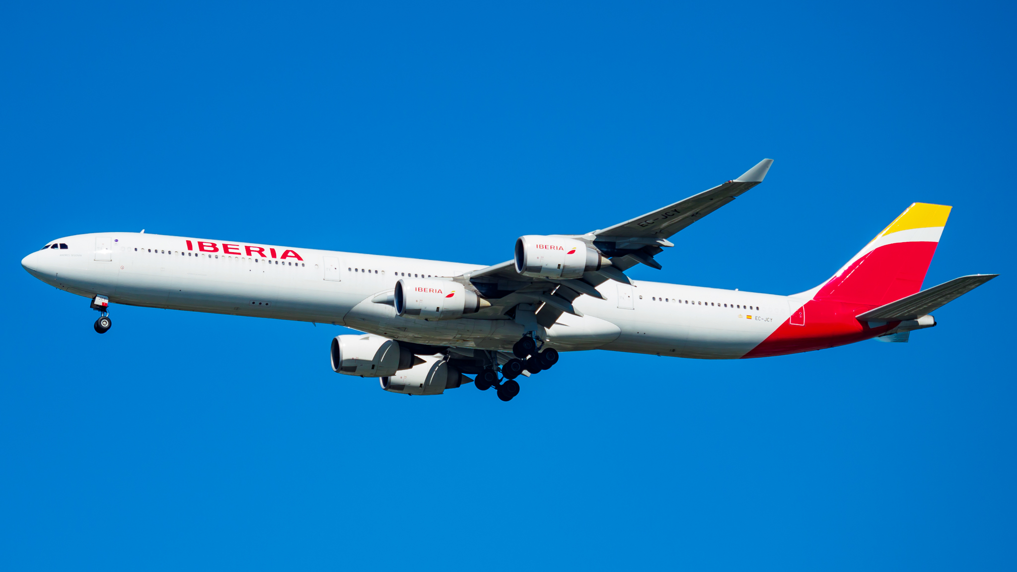 Spotting near JFK